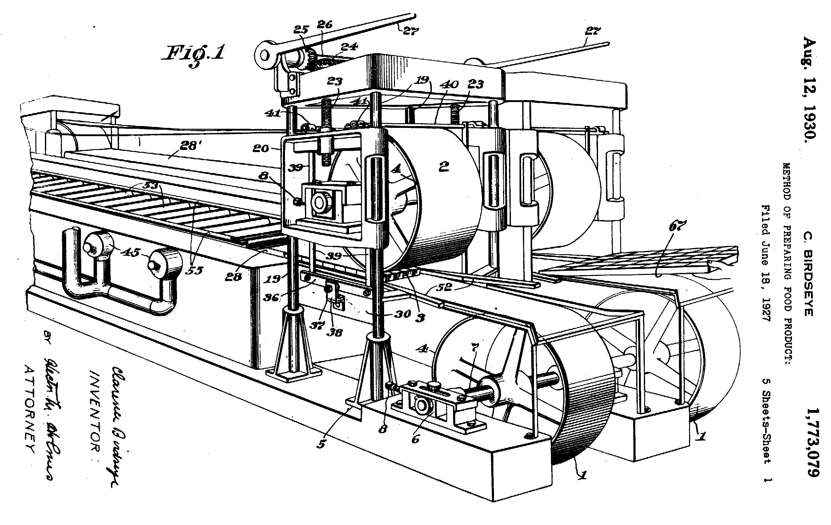 Figure 1 from United States patent #1,773,079 issued to Clarence Birdseye for the production of quick-frozen fish.